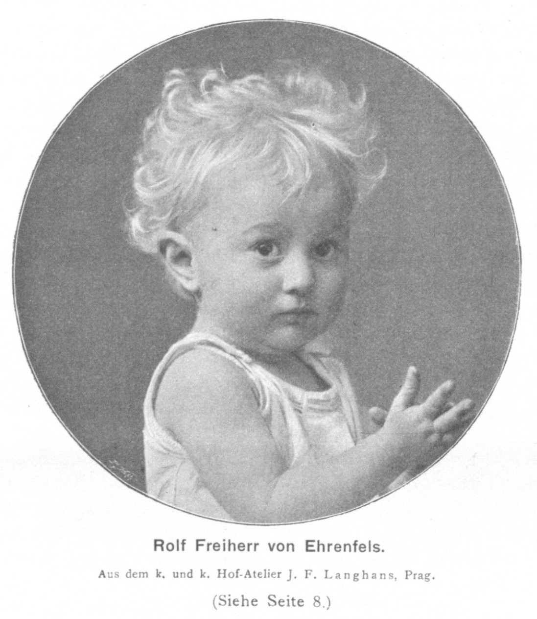 A childhood portrait of (Omar) Rolf von Ehrenfels (1901-1980), future Austrian anthropologist and orientalist.